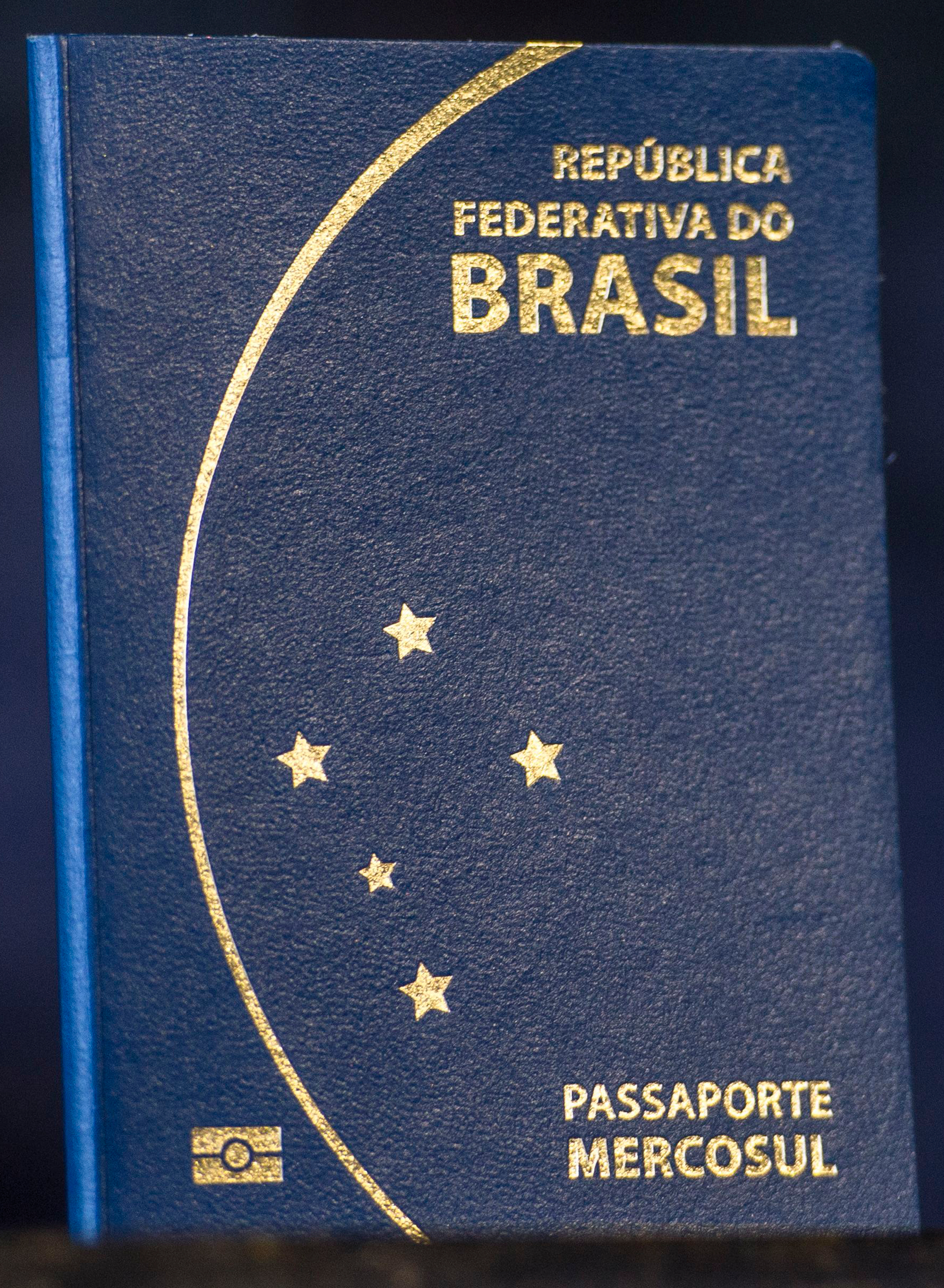 Brazilian passport introduced in 2015. (Cropped from original)